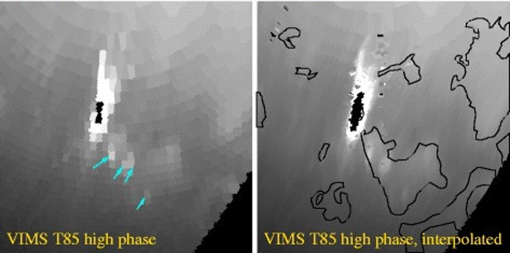 Portions of the sea surface of Titan's hydrocarbon sea, Punga Mare, are brightened due to waves initiated by the surface winds.